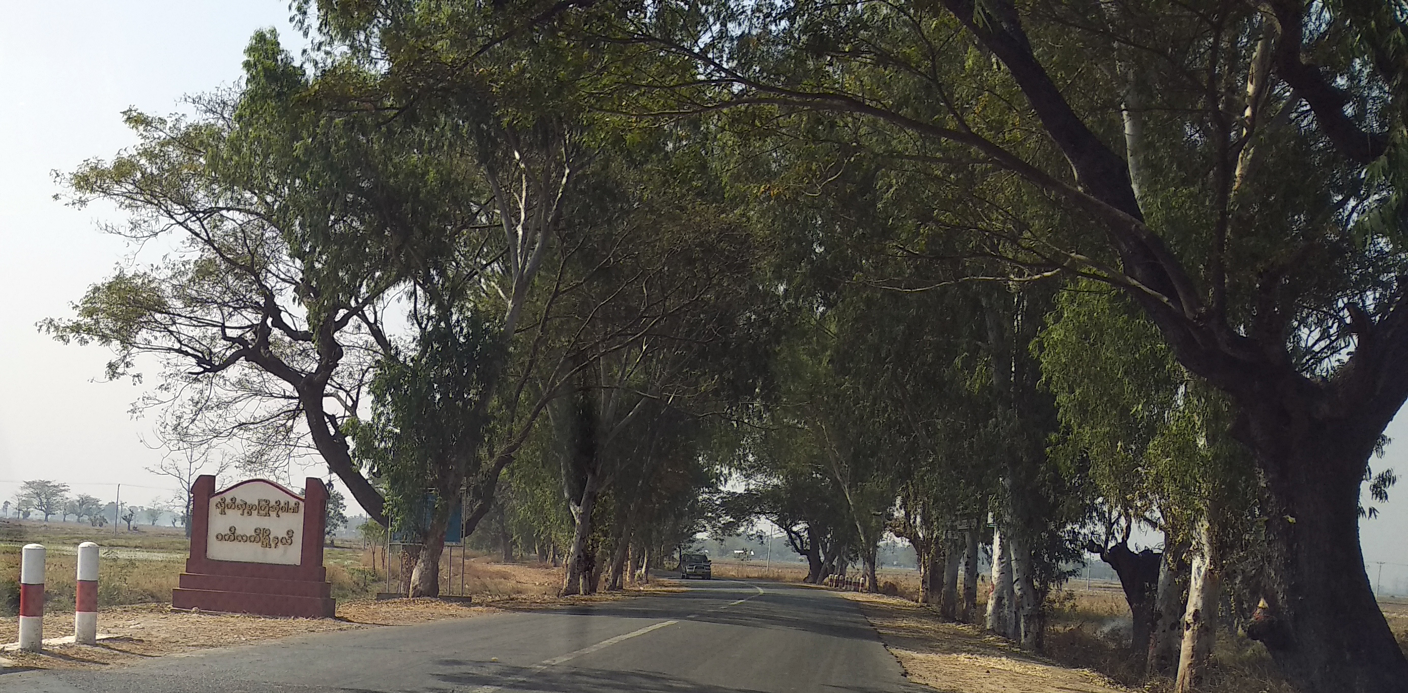 Wetlet Township, Sagaing Region, Myanmar မြန်မာဘာသာ: ဝက်လက်မြို့နယ်၊ စစ်ကိုင်းတိုင်းဒေသကြီး